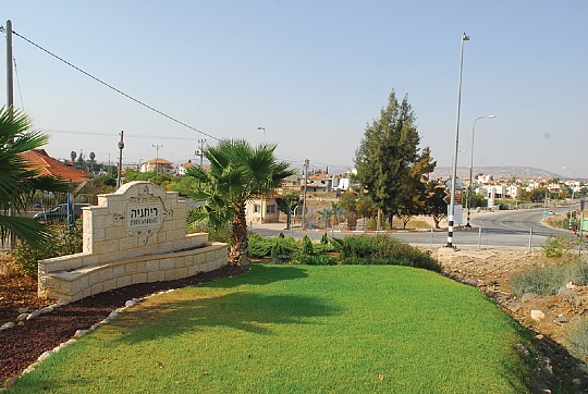 the circassian village at the highest galille